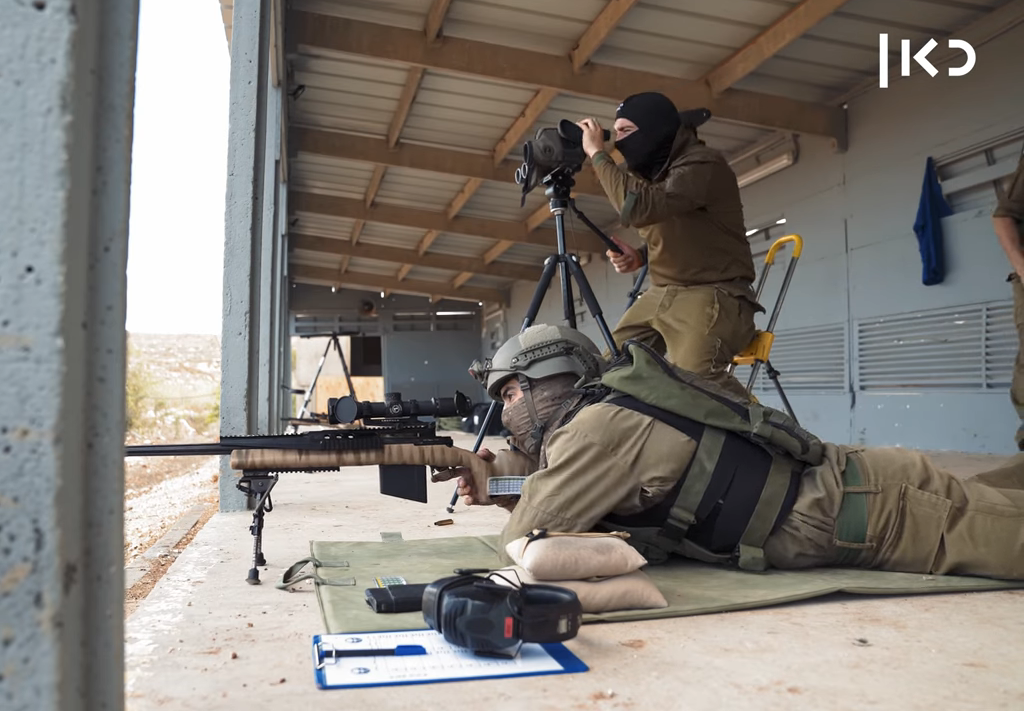 IDF snipers practice. The sniper is armed with the IDF Barak sniper rifle (H-S Precision Pro Series 2000 HTR 0.338 LM).